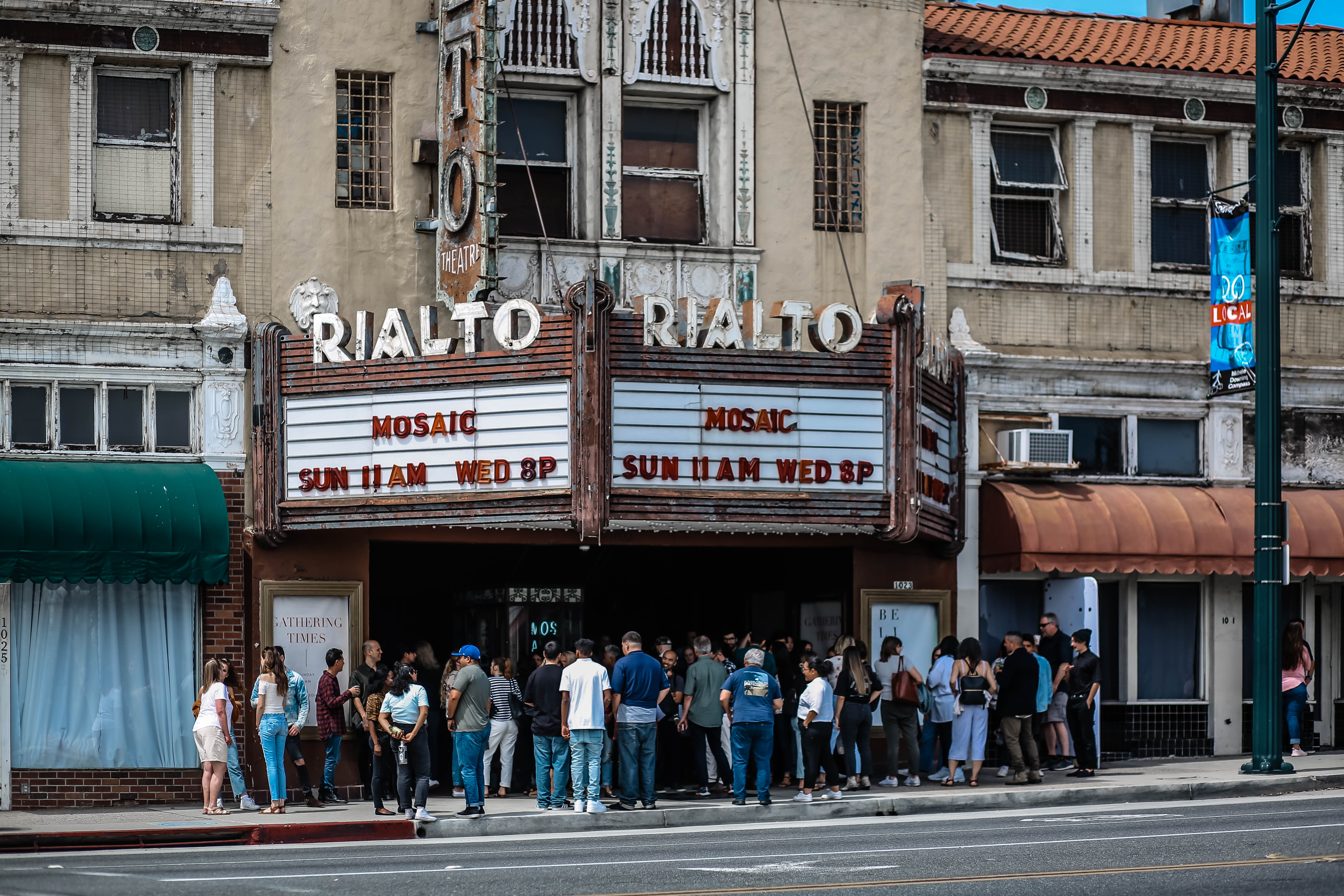 Outdoor view of Mosaic South Pasadena